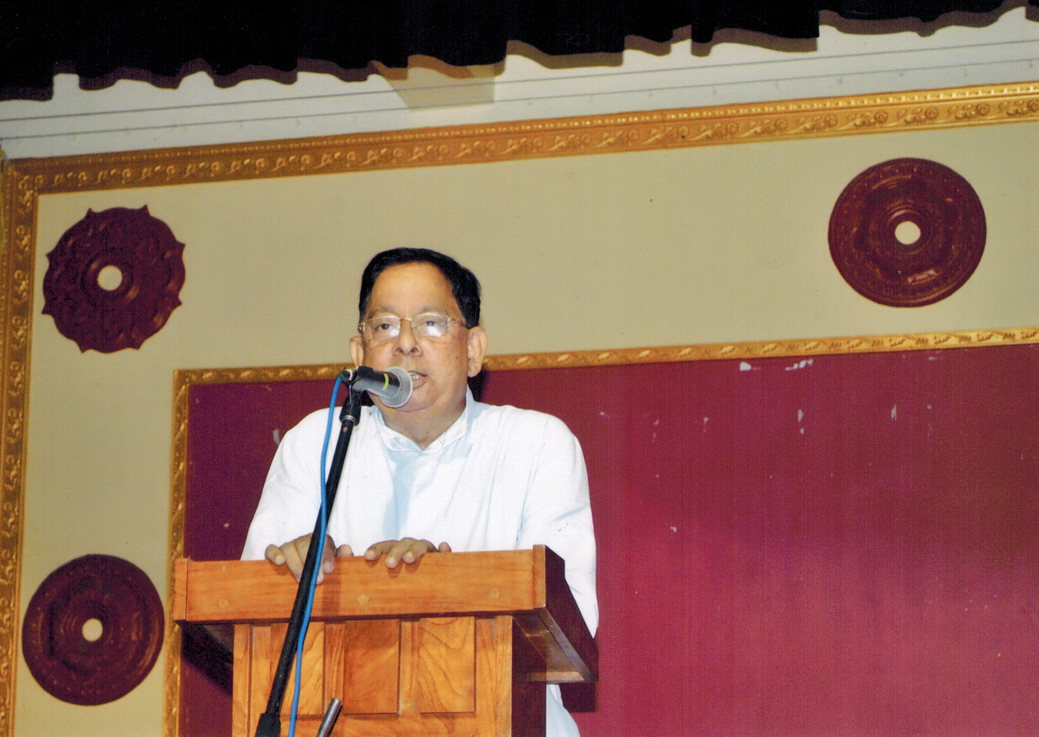 Father Varghese Pananghat